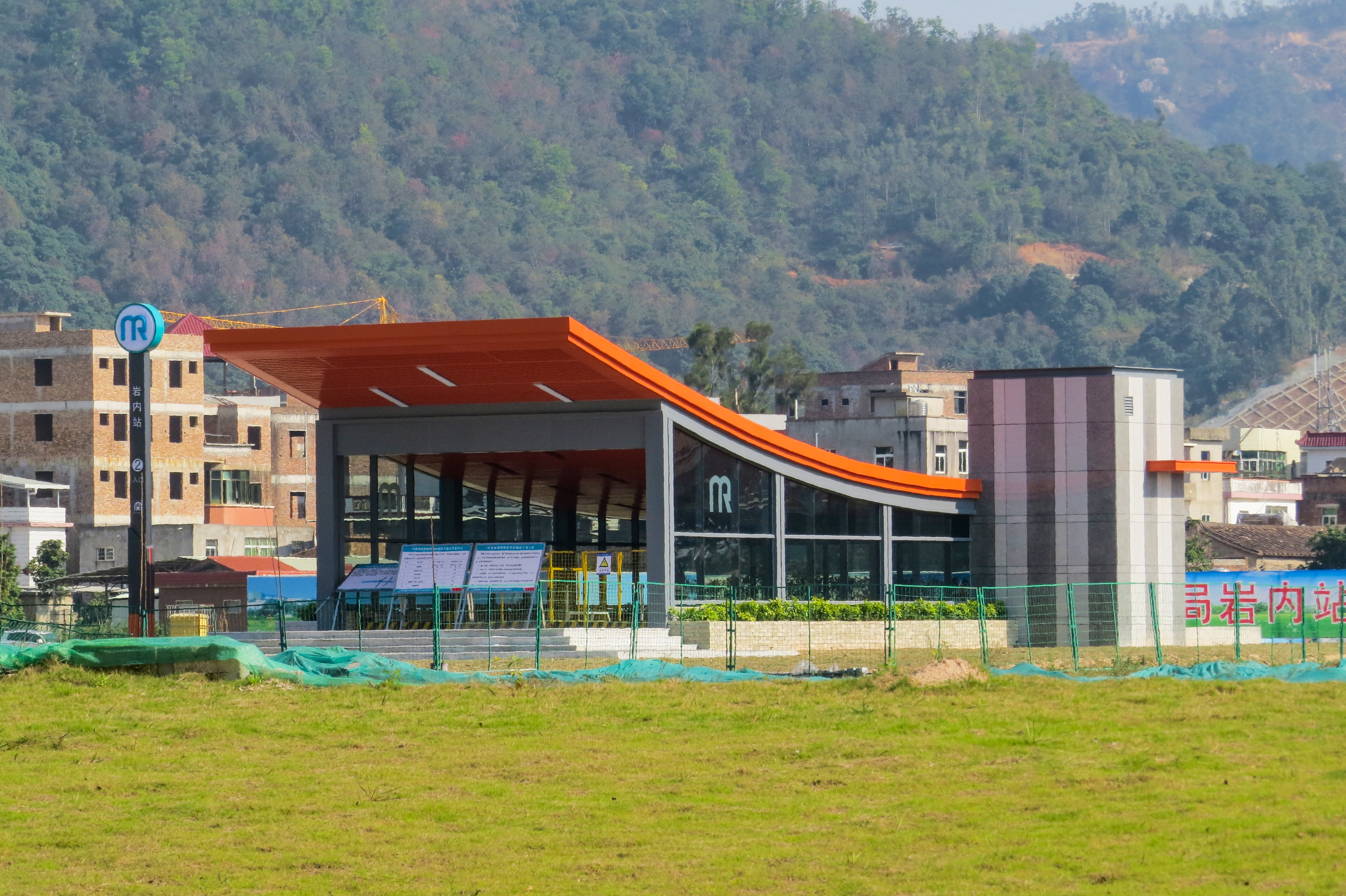 This station is not too far from Xiamenbei Railway Station (north square which has not yet been in use). But the canopy reminds me of those stations on Beijing Subway Phase 1 (Gucheng - Beijing Railway Station).